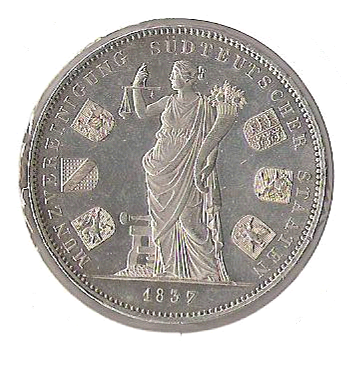 Reverse of double historical taler of Bayern 1837. Original image was taken from image from german Wikipedia, which was scan and uploaded there